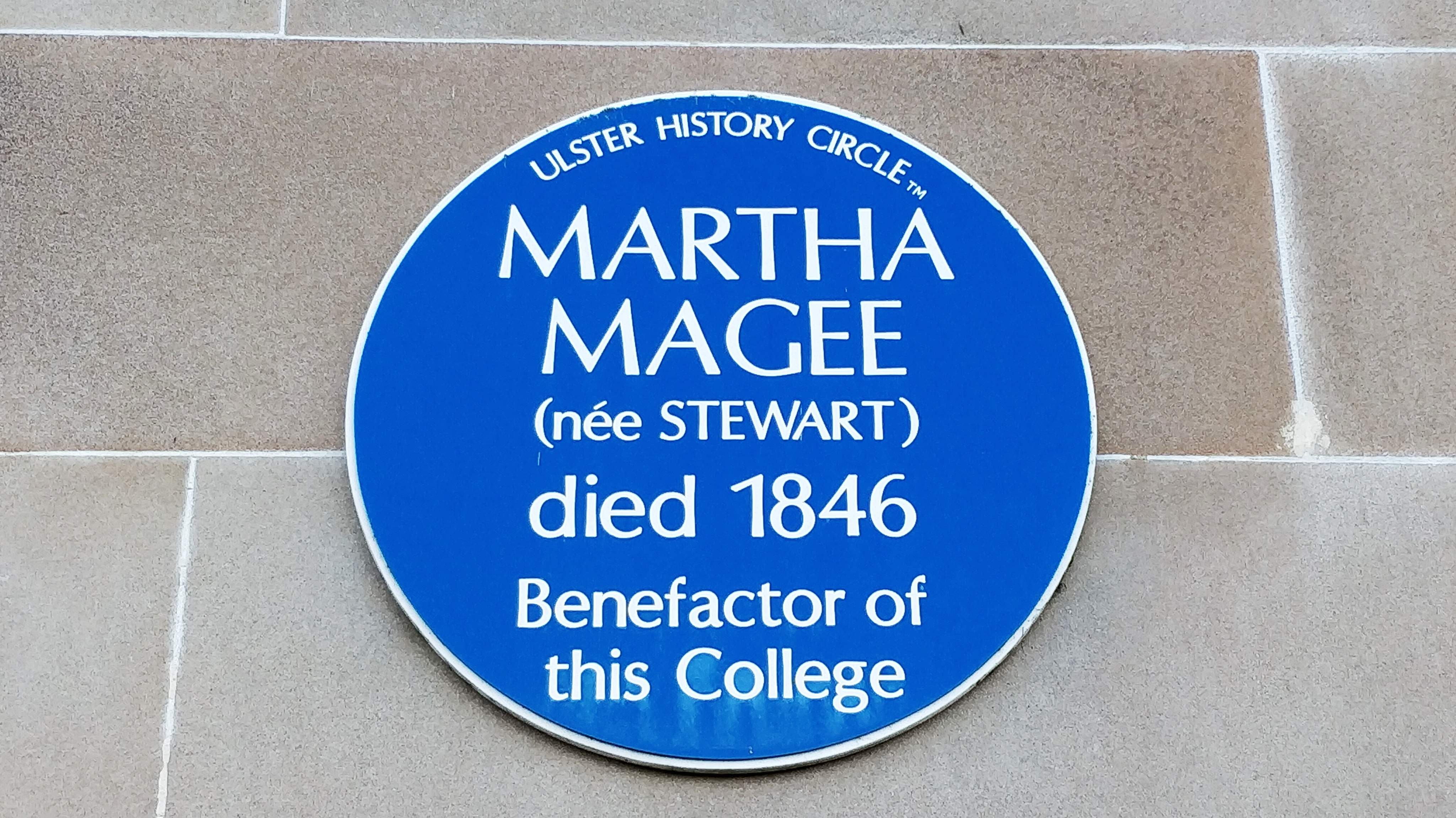 This plaque, commemorating Martha Magee is on the wall of the main building on Ulster University Magee Campus, Northern Ireland